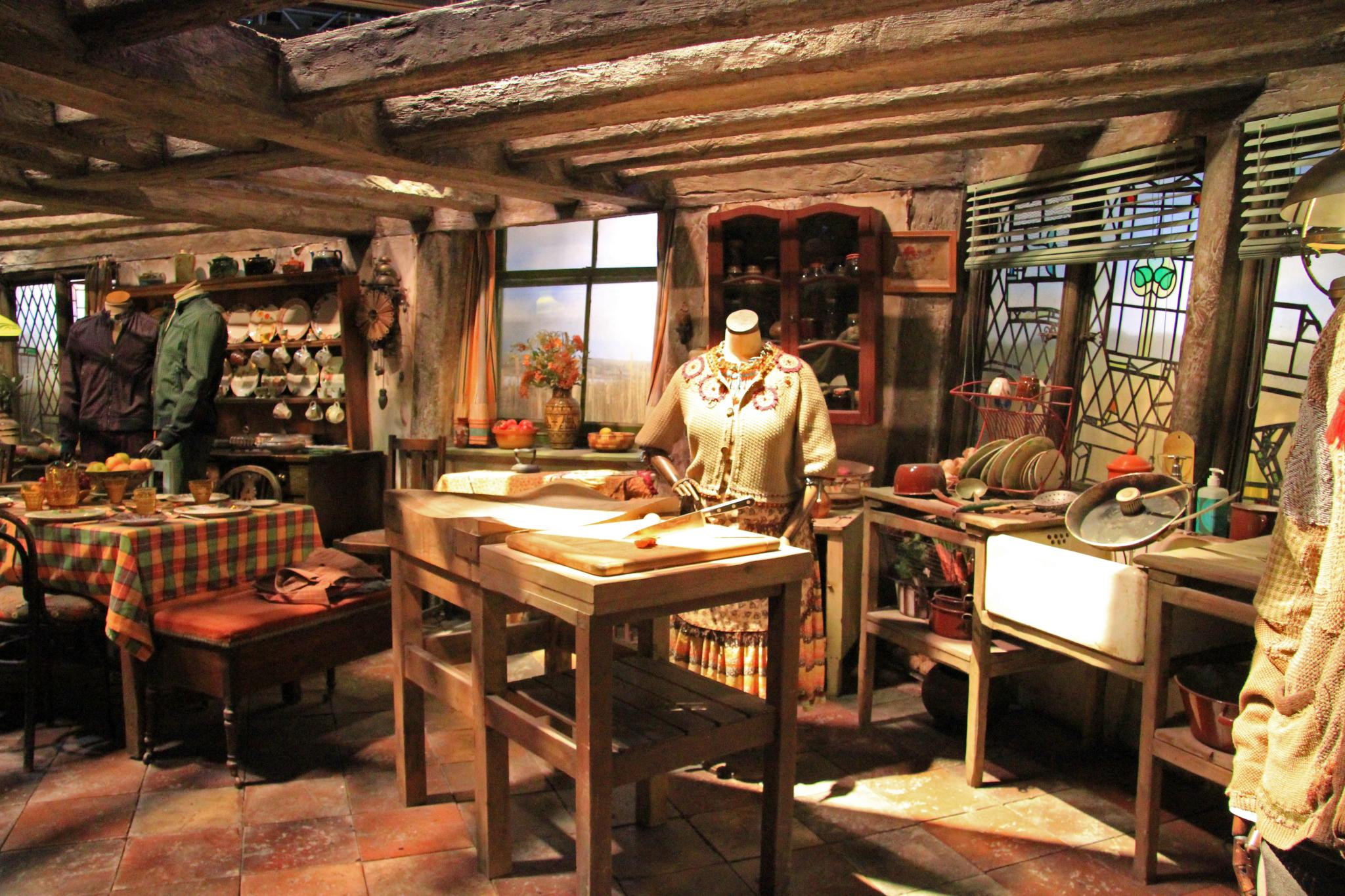 Warner Bros. Studio Tour London: The Making of Harry Potter.